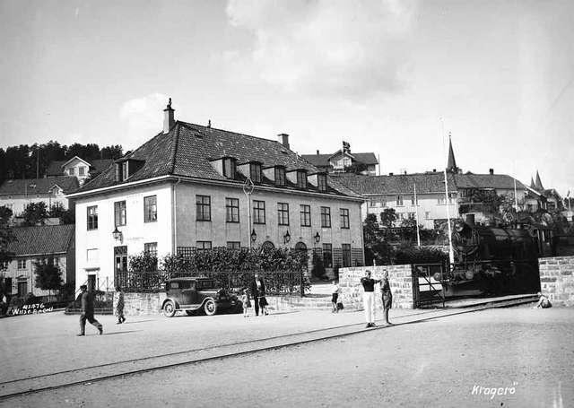 Kragerø Station on the Kragerø Line, Norway